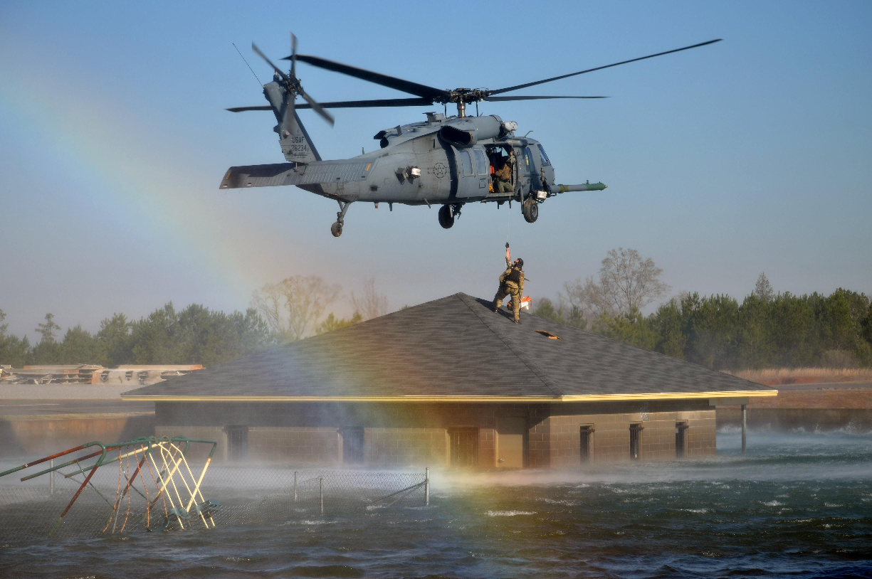 Pararescue jumpers and combat rescue officers conduct a search and rescue response during Katrina-like flood training March 8, 2015, in Perry, Ga. The four-day exercise used HH-60 Pave Hawks and MV-22 Ospreys for simulated scenarios that included earthquake collapsed buildings, vehicle-borne improved explosive devices detonating, and mass casualty response. The pararesue jumpers and rescue officers are from the 920th Rescue Wing at Patrick Air Force Base, Fla. (U.S. Air Force photo/Staff Sgt. Kelly Goonan)